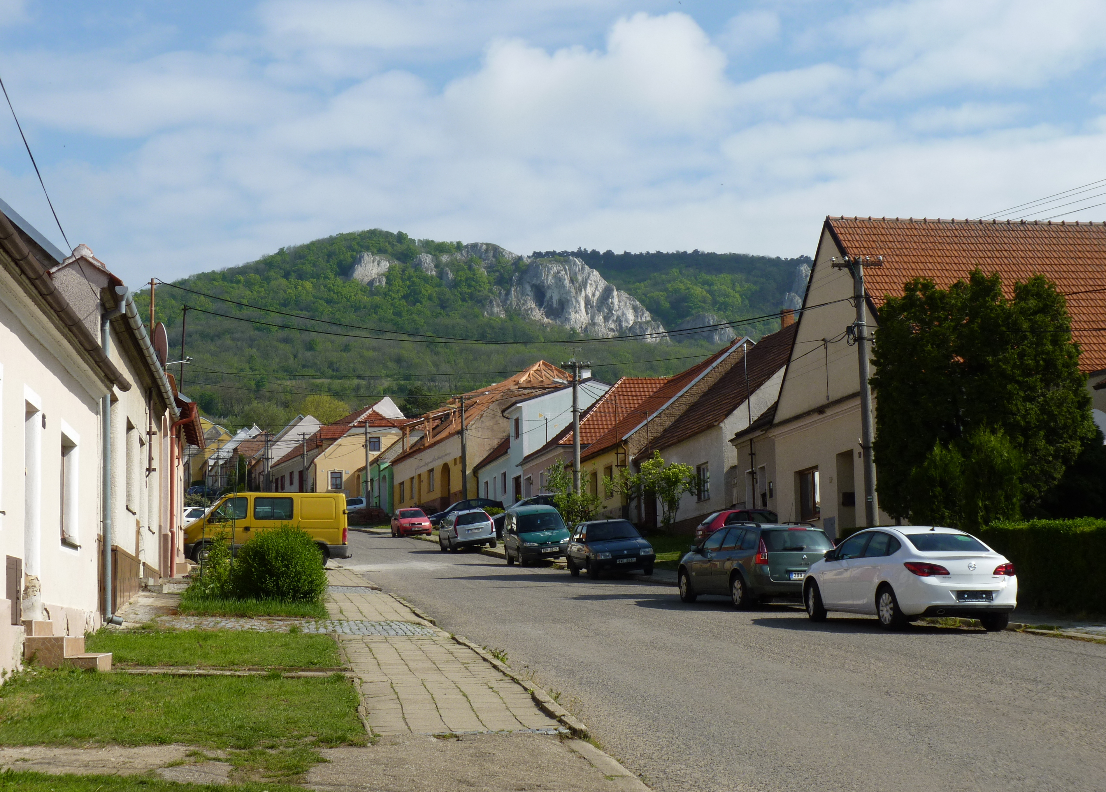 Horni Vestonice. Palava, South Moravian Region, Czech Republic Project: Chráněná území